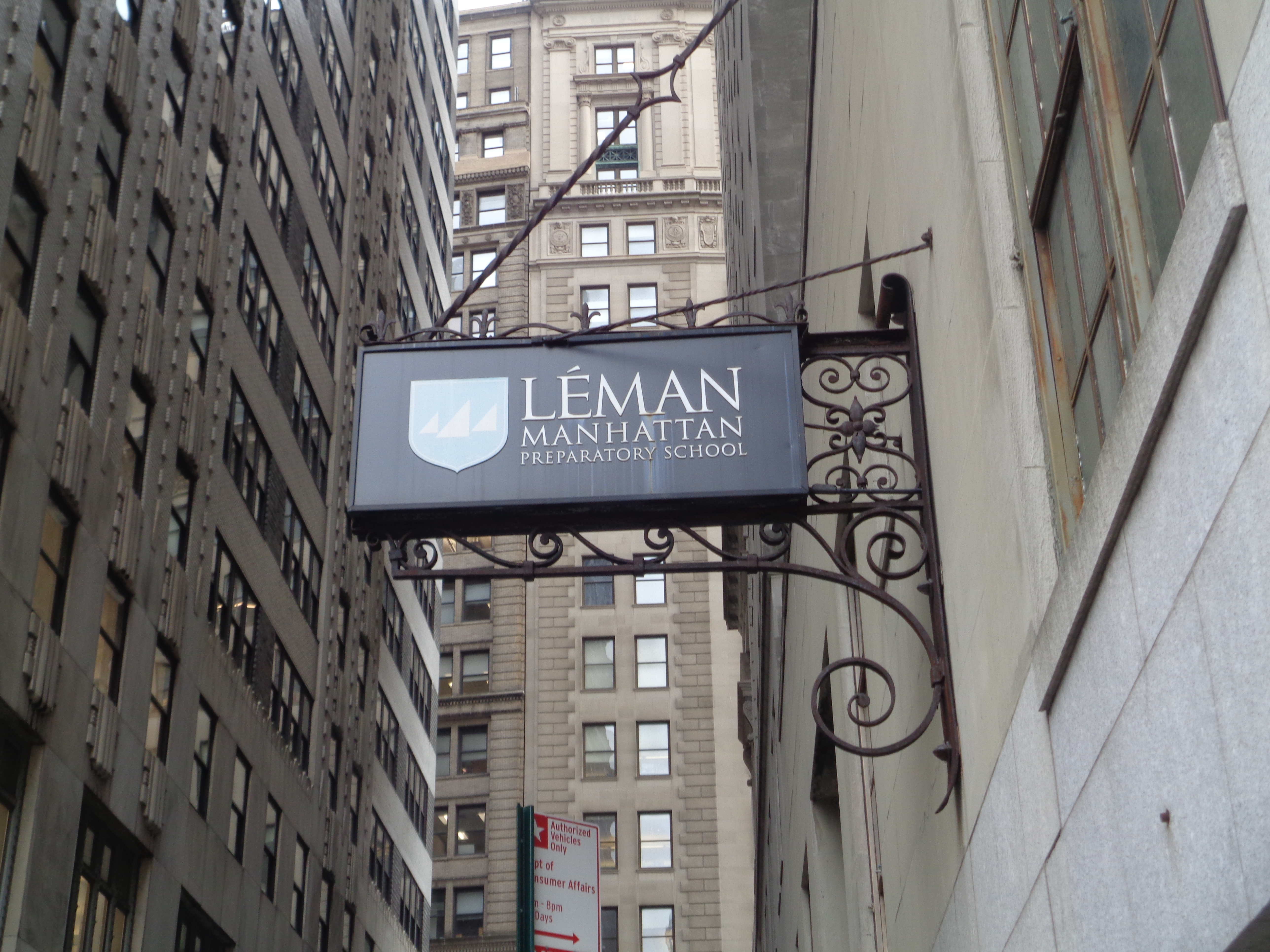 A sign for the Léman Manhattan Preparatory School at the Cunard Building on Morris Street and Trinity Place in the Financial District, Manhattan.